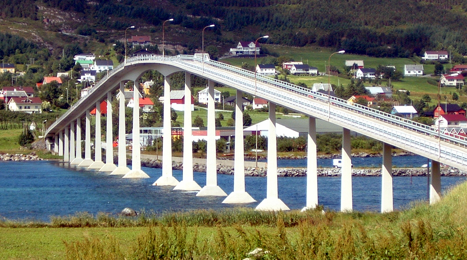 A photograph of the Nerlandsøy bridge in Herøy, Sunnmøre, Norway.